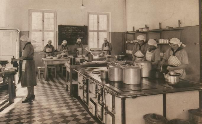 Reifensteiner Schule Lehrküche Beinrode um 1930